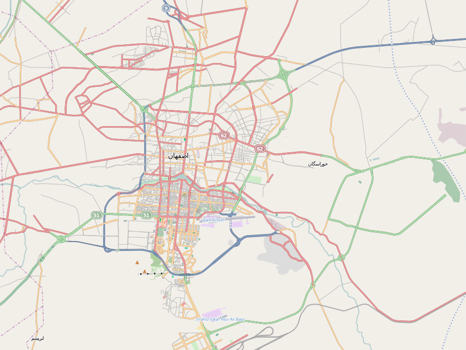 This map may be incomplete, and may contain errors. Don't rely solely on it for navigation. Border coordinates32.7451.85←↕→51.5532.55